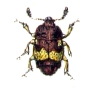 Carpophilus hemipterus, from Calwer's Käferbuch, Table 13, Picture 25. Taxonomy was updated to 2008, using mostly the sites Fauna Europaea and BioLib. Please contact Sarefo if the determination is wrong!